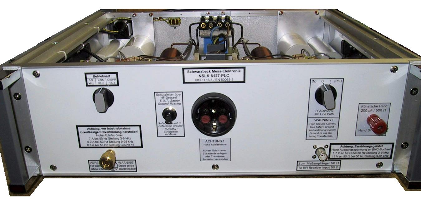 Line Impedance Stabilisation Network (LISN), CISPR 16, V-LISN, 9 kHz - 30 MHz.